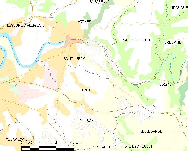 Map of French municipality Saint-Juéry